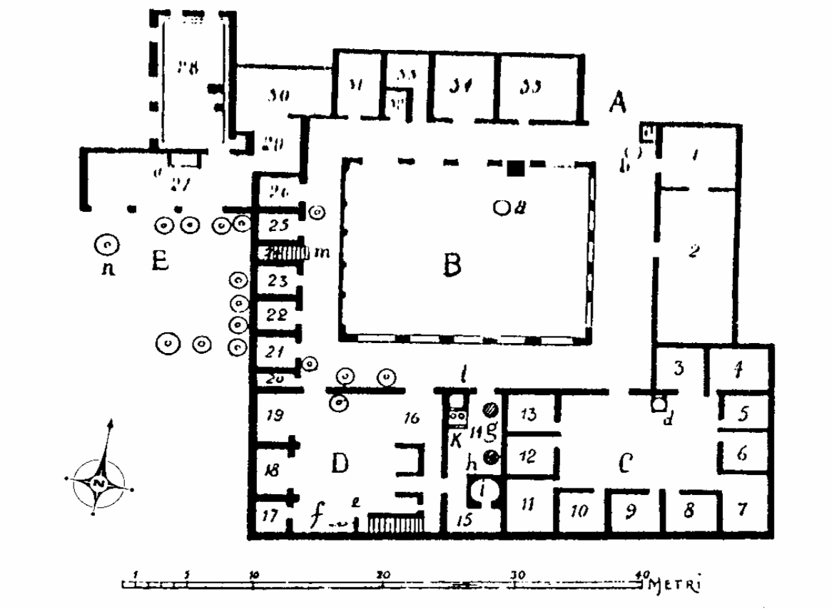 Villa Marchetti plan